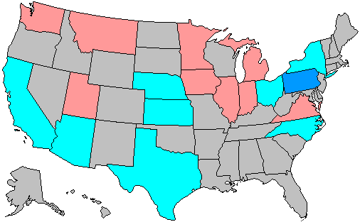 Summary of party change of U.S. house seats in the 1976 House election. Stripes indicate a tie between the gains of two or more parties. Legend: 6+ Democratic seat pickup 3-5 Democratic seat pickup 1-2 Democratic seat pickup 1-2 Republican seat pickup 3-5 Republican seat pickup 6+ Republican seat pickup Note: years ending in 2 may have inconsistent results due to redistricting.